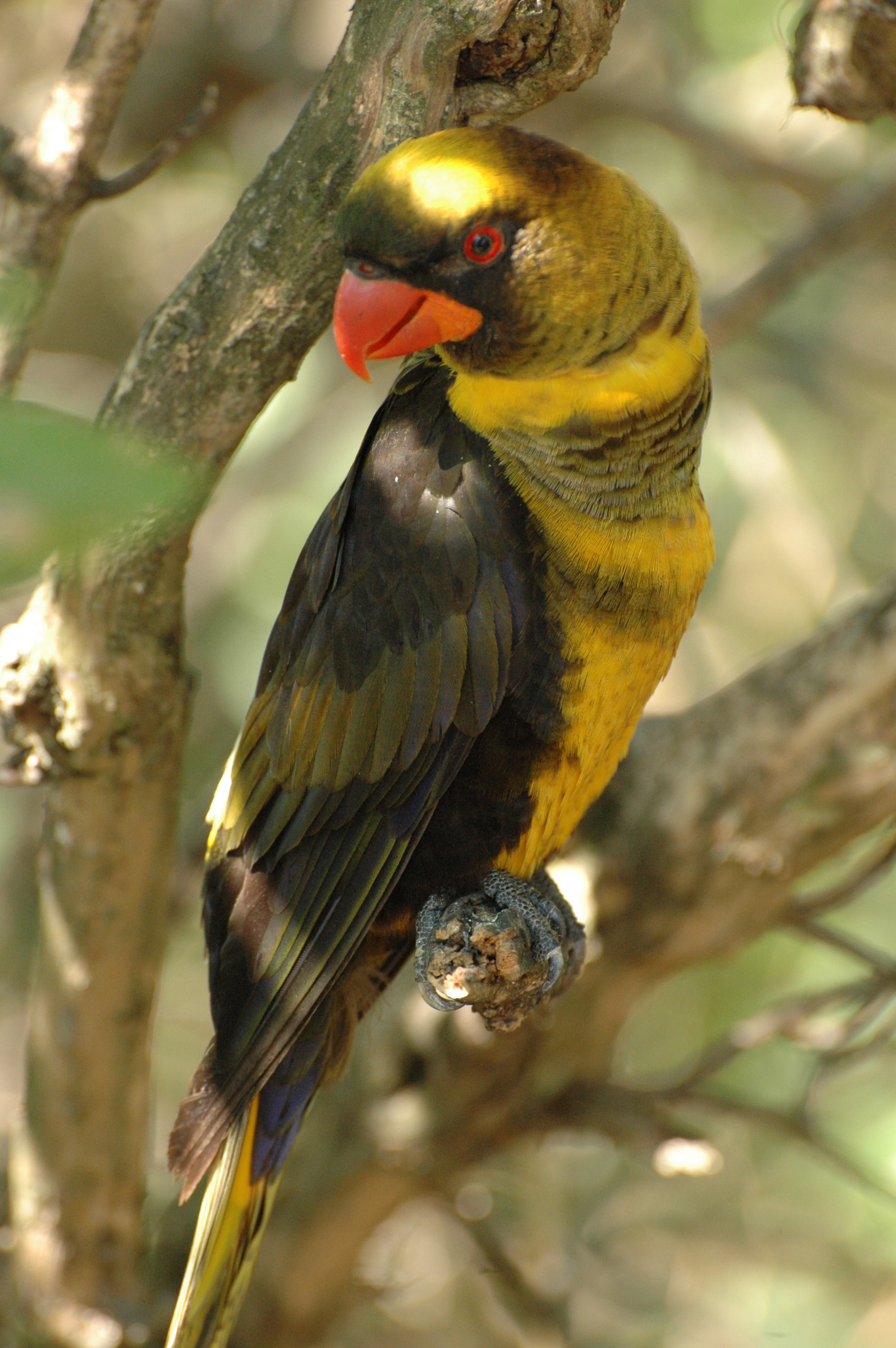 Dusky Lory (Pseudeos fuscata) in the yellow phase perching on a branch at the Buffalo Zoo.